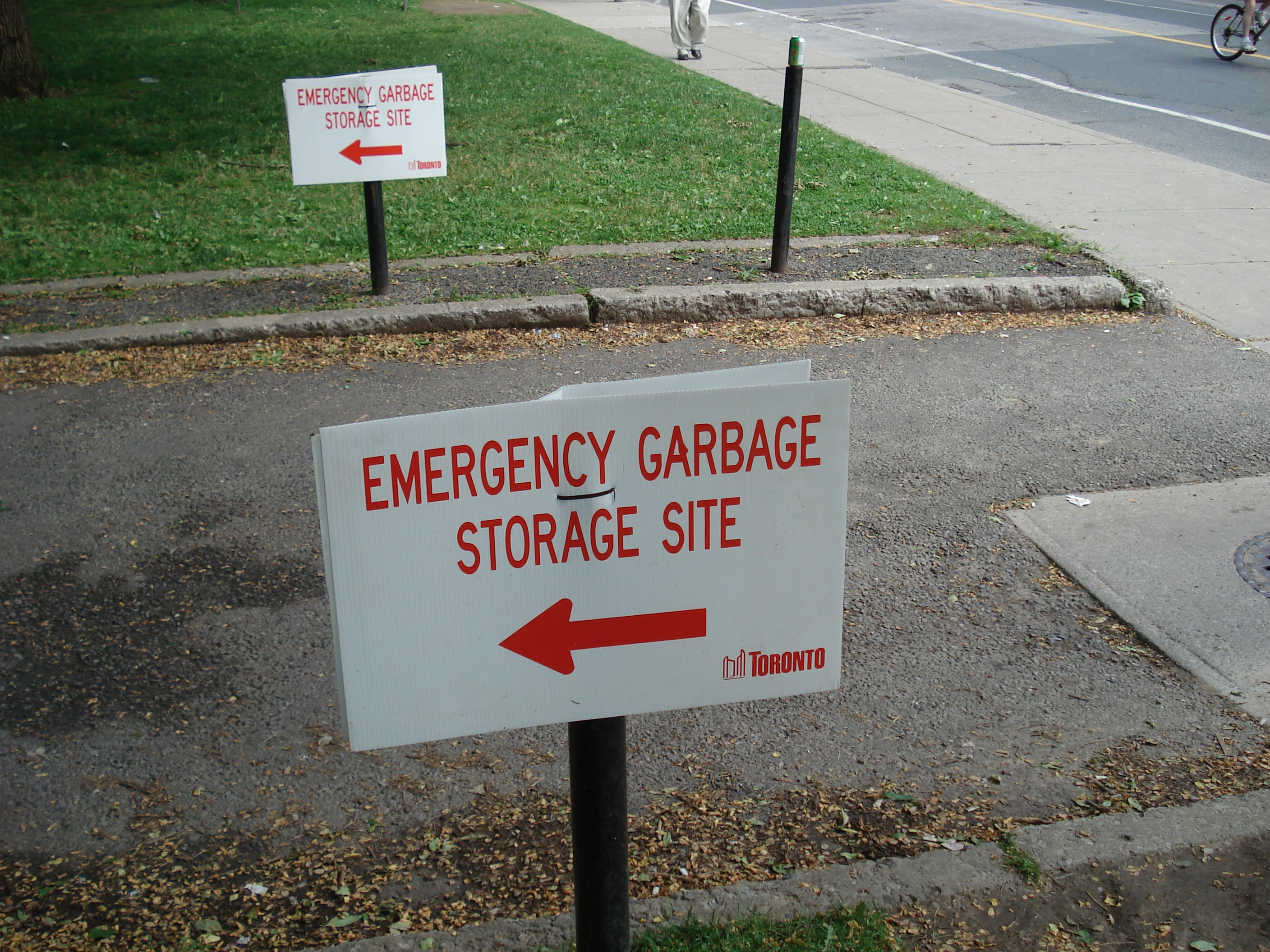 A sign indicating a temporary dumpsite during the Toronto Civil workers strike of 2009